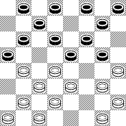 Gambit Kharyanova-Shoshina after 6…ab6 7. ab4